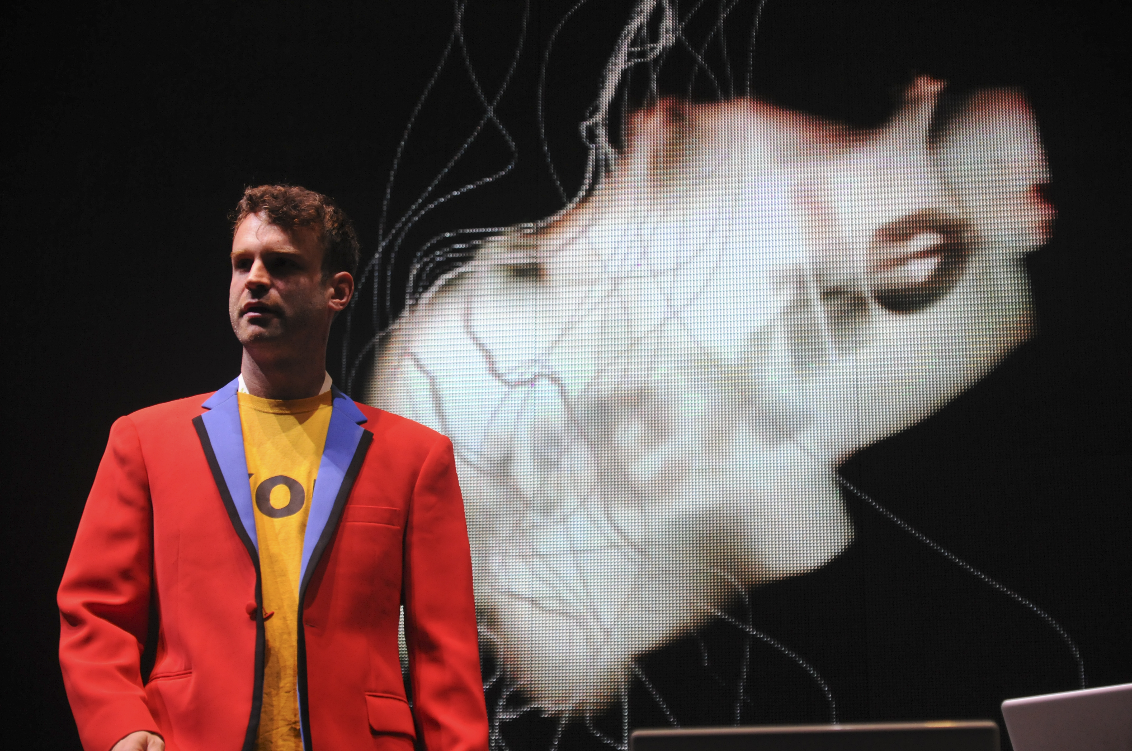 Tim Exile, producer and performer of electronic music, at Campus Party Mexico 2011.